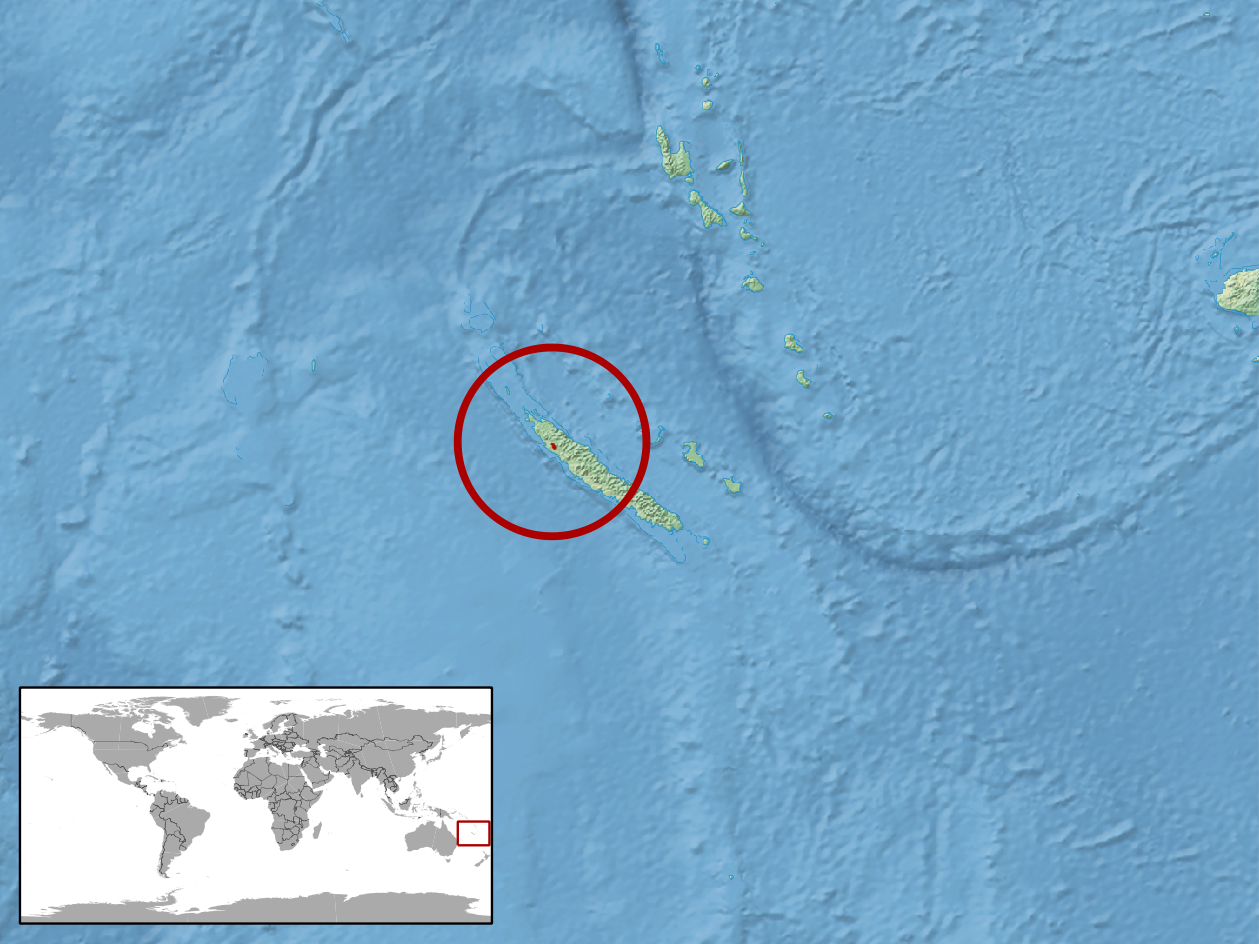 geographic distribution of Marmorosphax taom